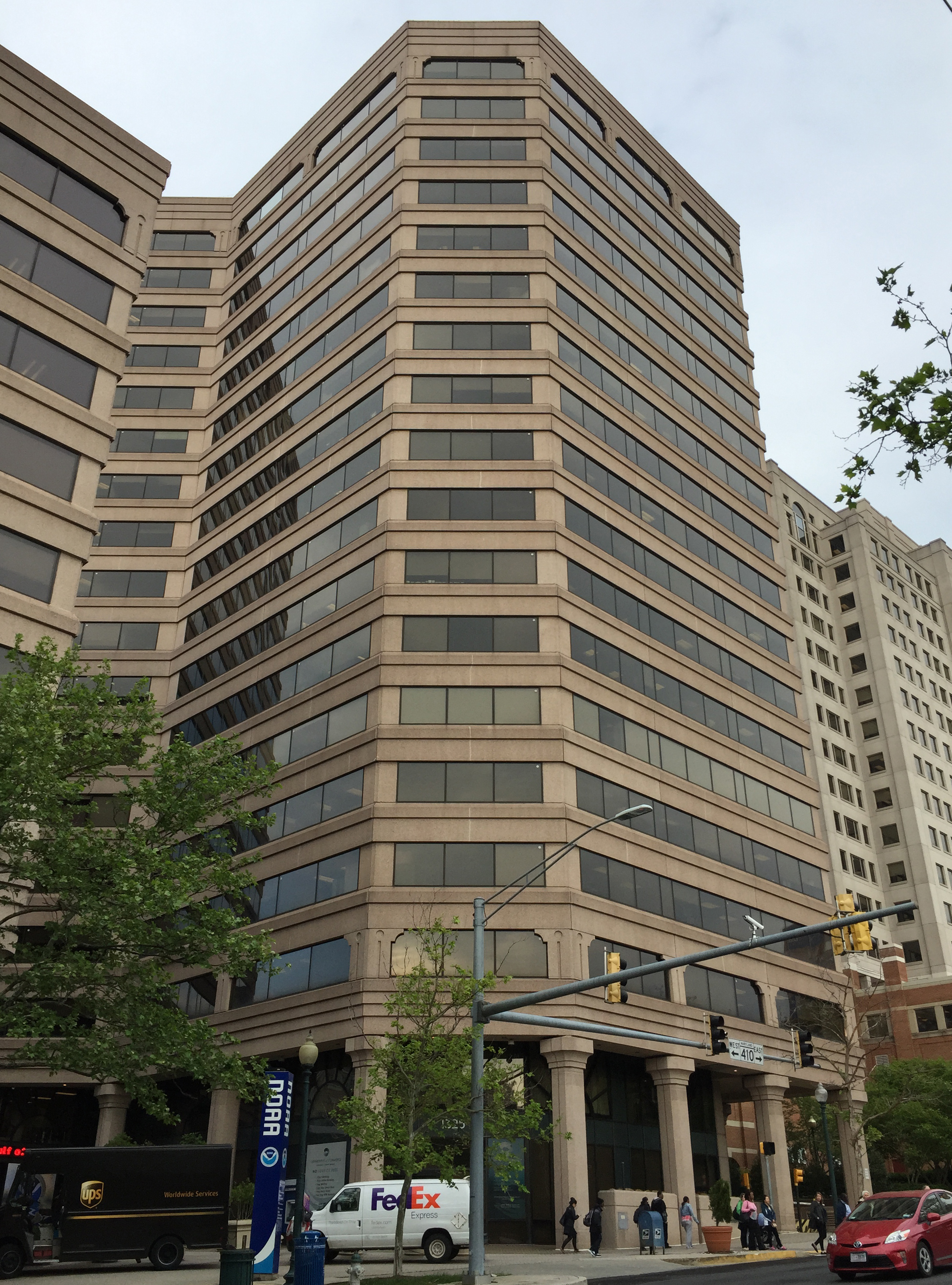 National Weather Service headquarters on East-West Highway (Maryland State Route 410) in Silver Spring, Montgomery County, Maryland